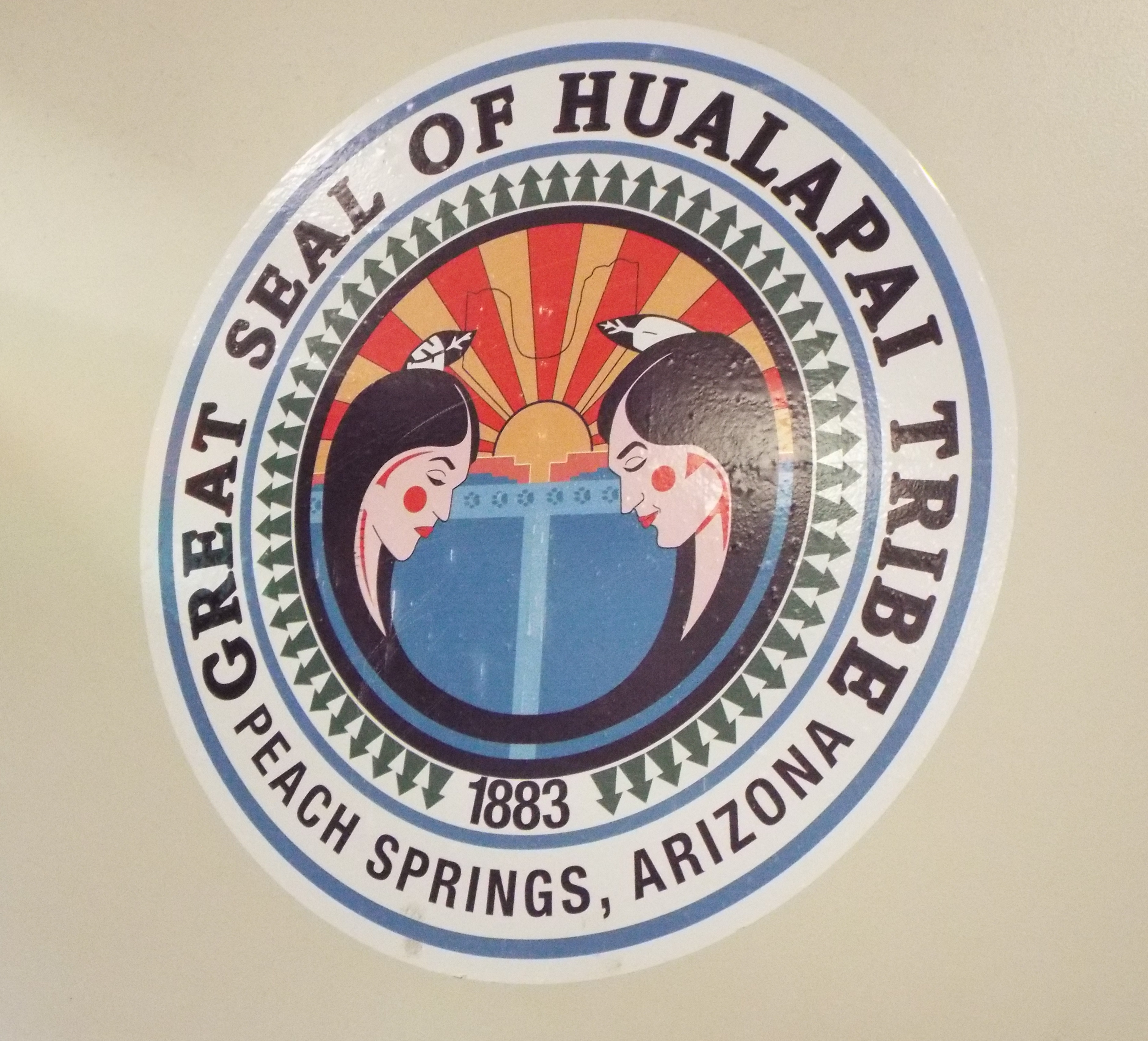 The Great Seal of the Halapai Tribe in Peach Springs, Az